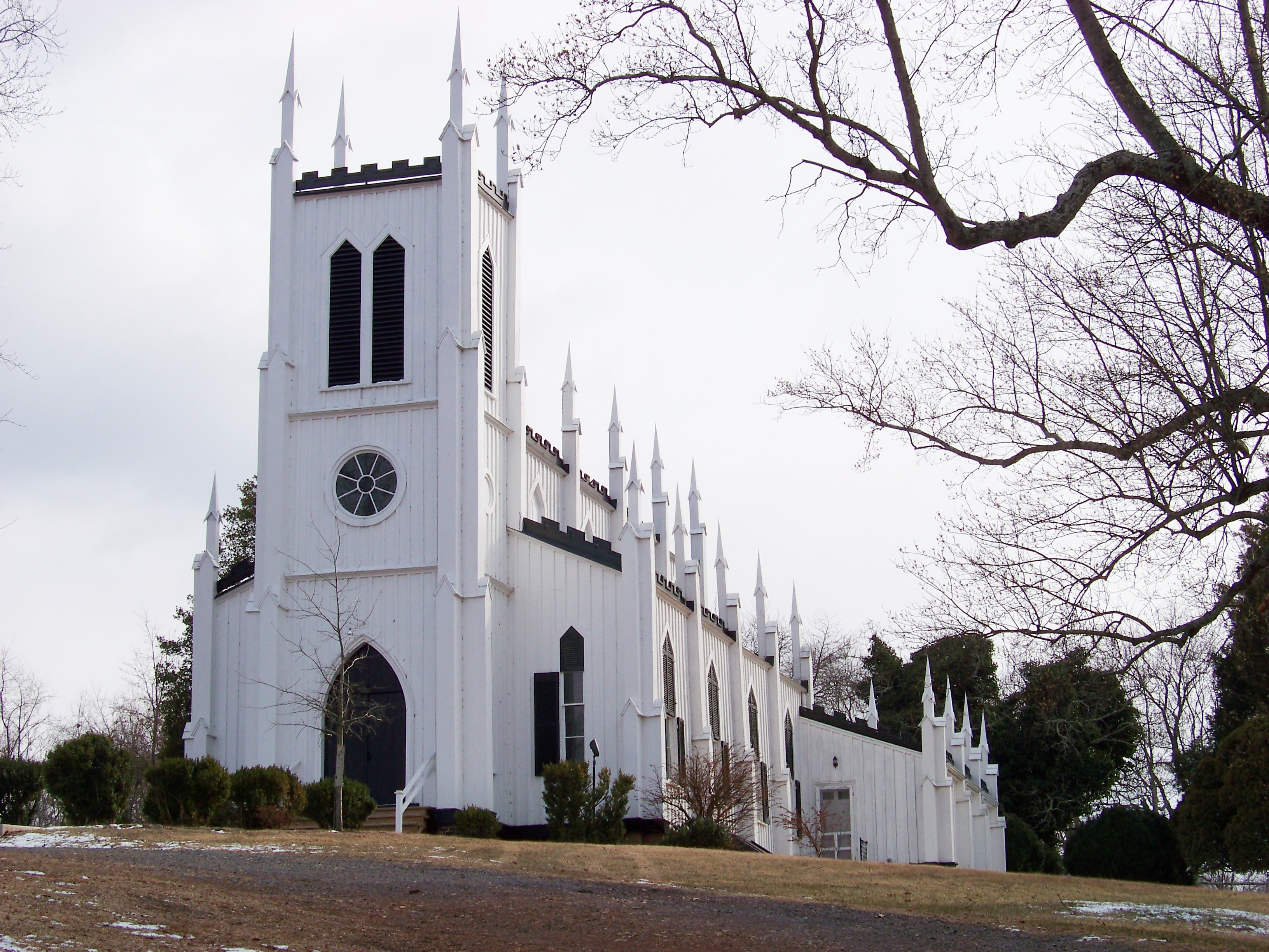 Waddell Memorial Presbyterian Church in Rapidan, Virginia